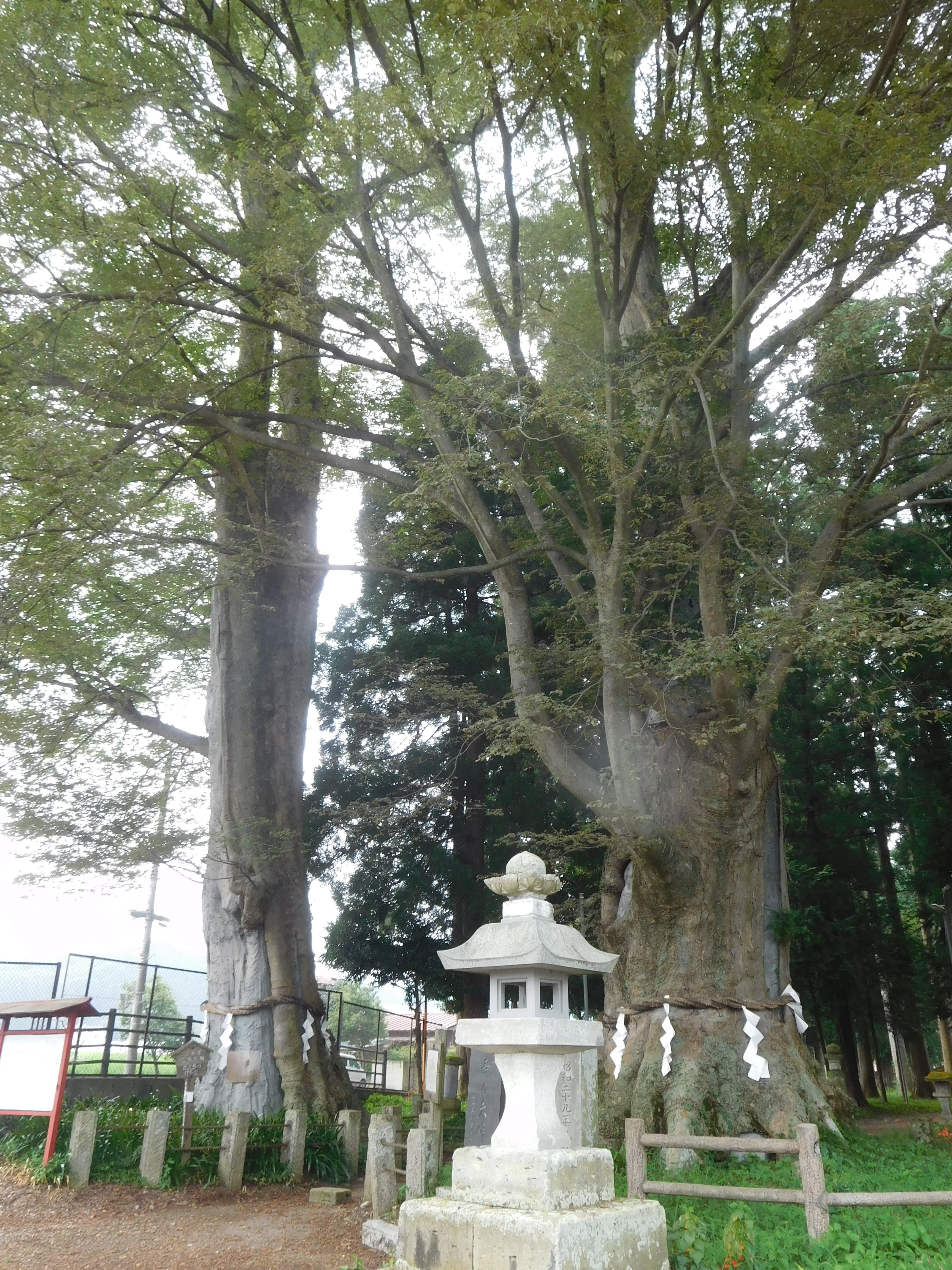 These are Japanese zelkova of Chikatsu Shrine in Utsunomiya, Tochigi, Japan.